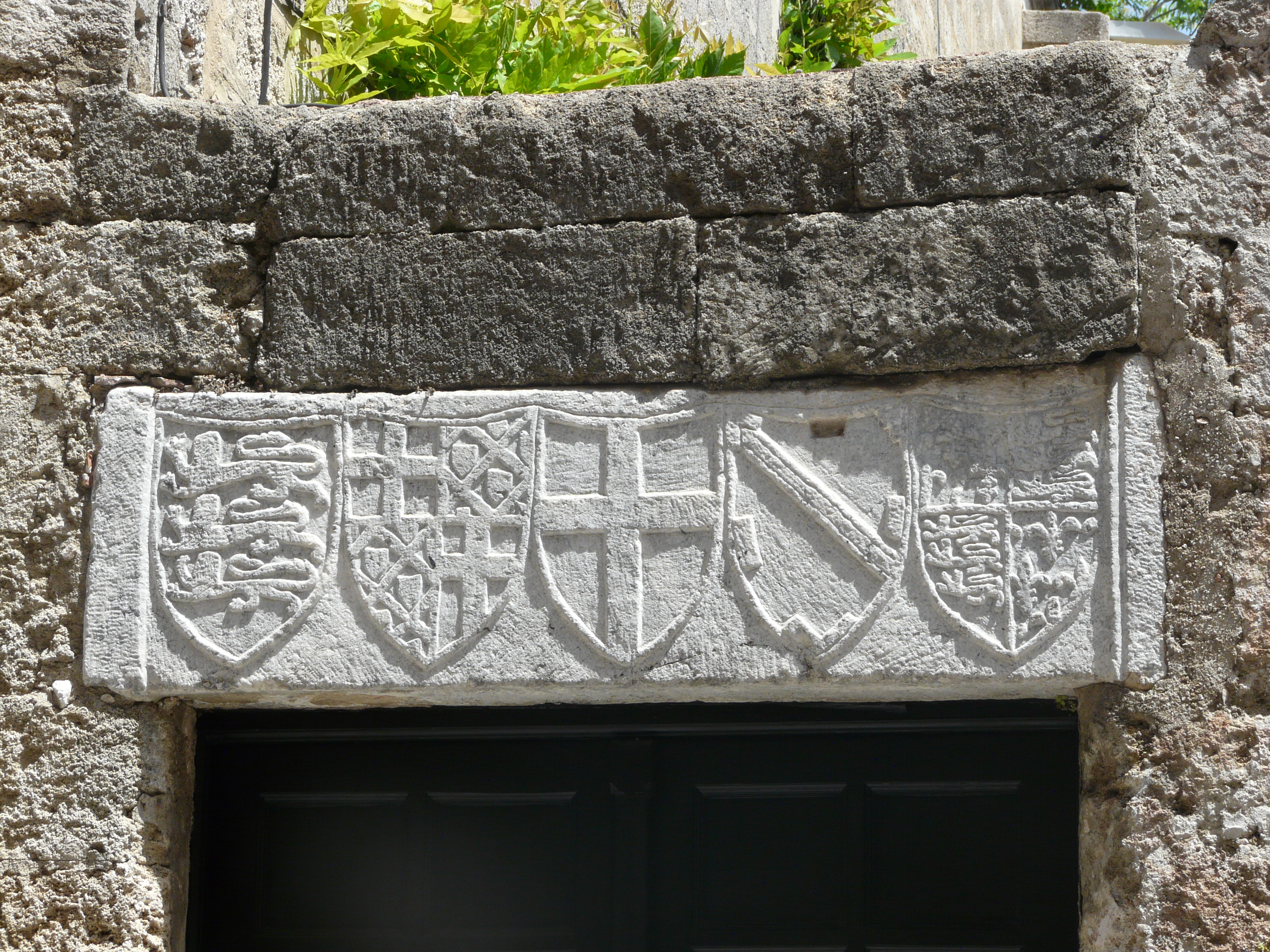 City of Rhodes.